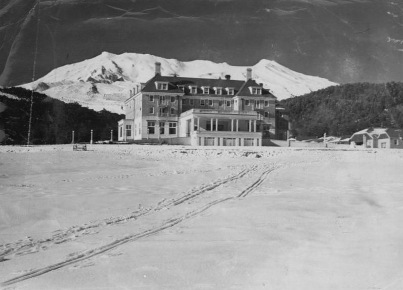 Description: Chateau and Mount Ruapehu (9,175ft) in winter, Tongariro National Park, Wellington Photographer: Unknown Date: Unknown Our reference: AAQT 6539 A2117 This photo is from Archives New Zealand's National Publicity Studio's collection. The National Publicity Studio was established in 1945, but its beginnings can be traced back to the establishment in 1924 of a Publicity Office - part of the Department of Internal Affairs. The emphasis of this Publicity Office was on films, photographs and booklets. The purpose of the National Publicity Studio was to provide advice to government departments and state agencies on the provision of photographic, art, and display services and in particular to assist in the production of publicity material aimed at conveying a favourable image of New Zealand.